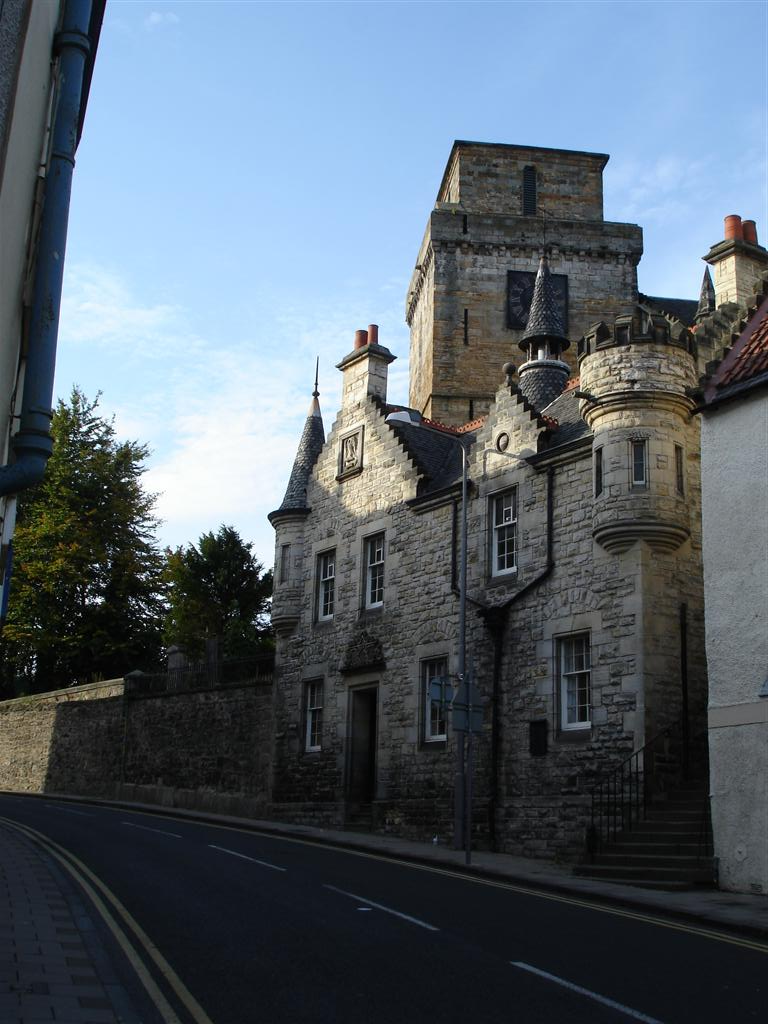 The Kirkcaldy Old Parish Church, behind buildings in Kirk Wynd.